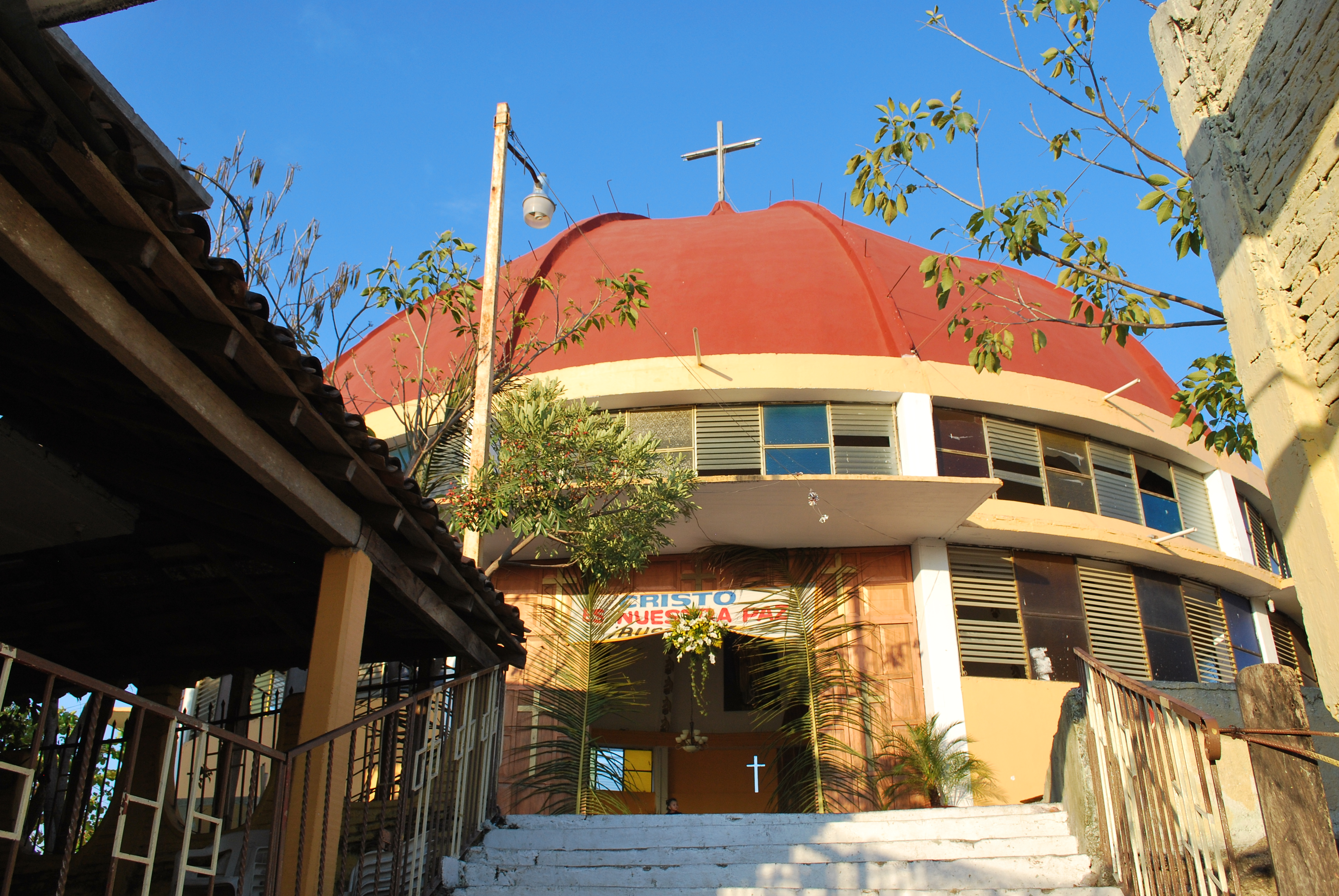 Santa Cruz parish in Cruz Grande, Guerrero